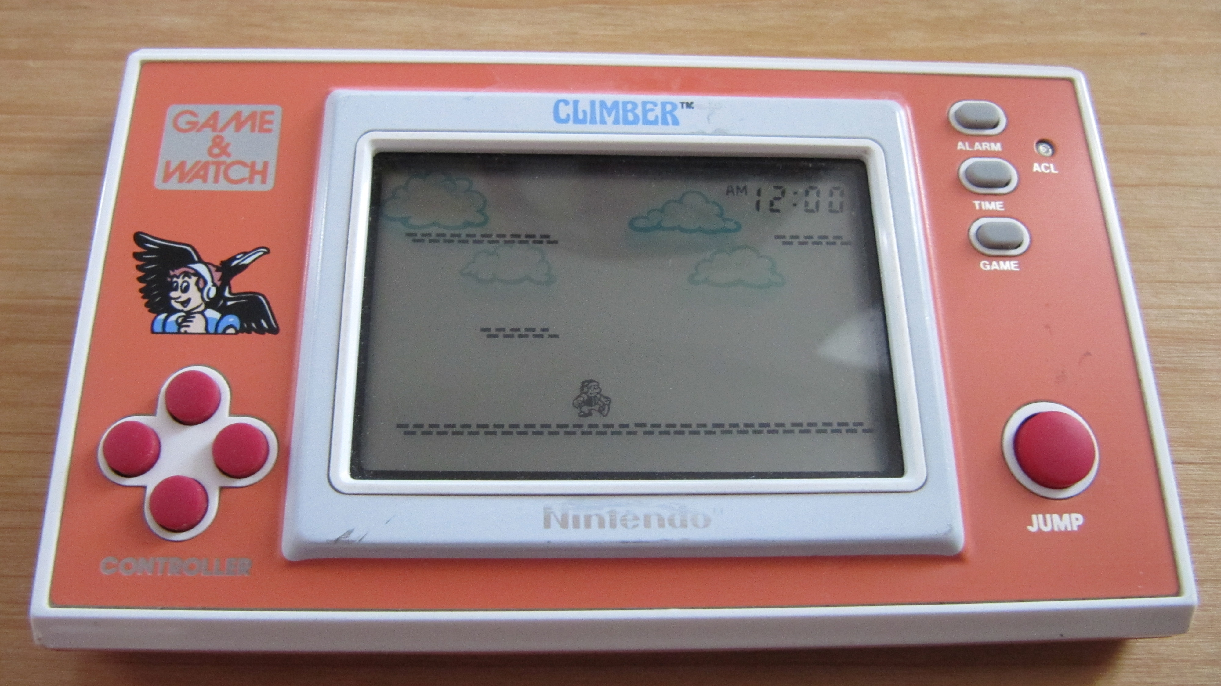 Game & Watch Climber